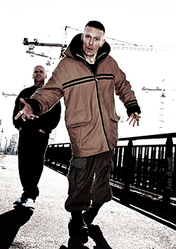 The Stereo MCs, walking over Schillingbrücke (in front of concert venue Maria am Ufer